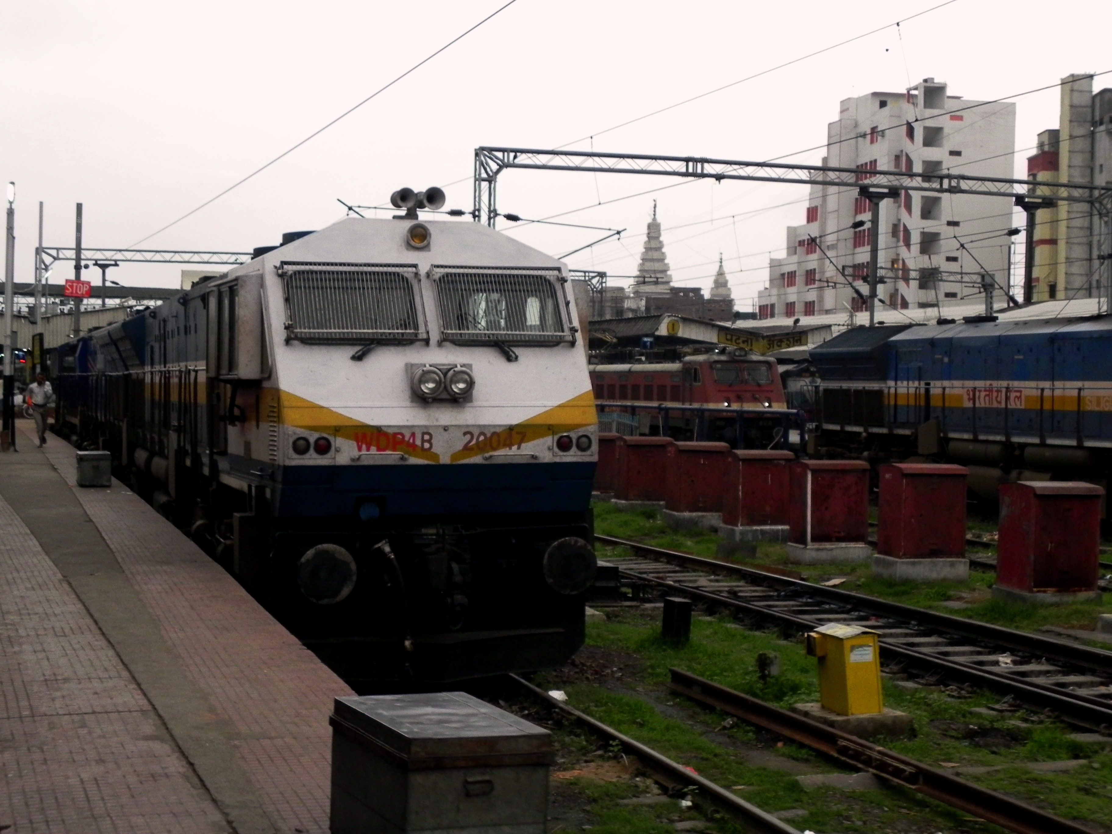 SGUJ based WDP-4 locomotives – 20014 , 20047 and 40032 at Patna (PNBE) yard.